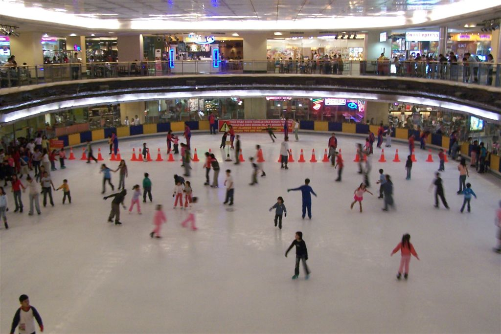 Ice skating is posbile altough there is no winter in Jakarta. Location: Mall Taman Anggrek, Jakarta.